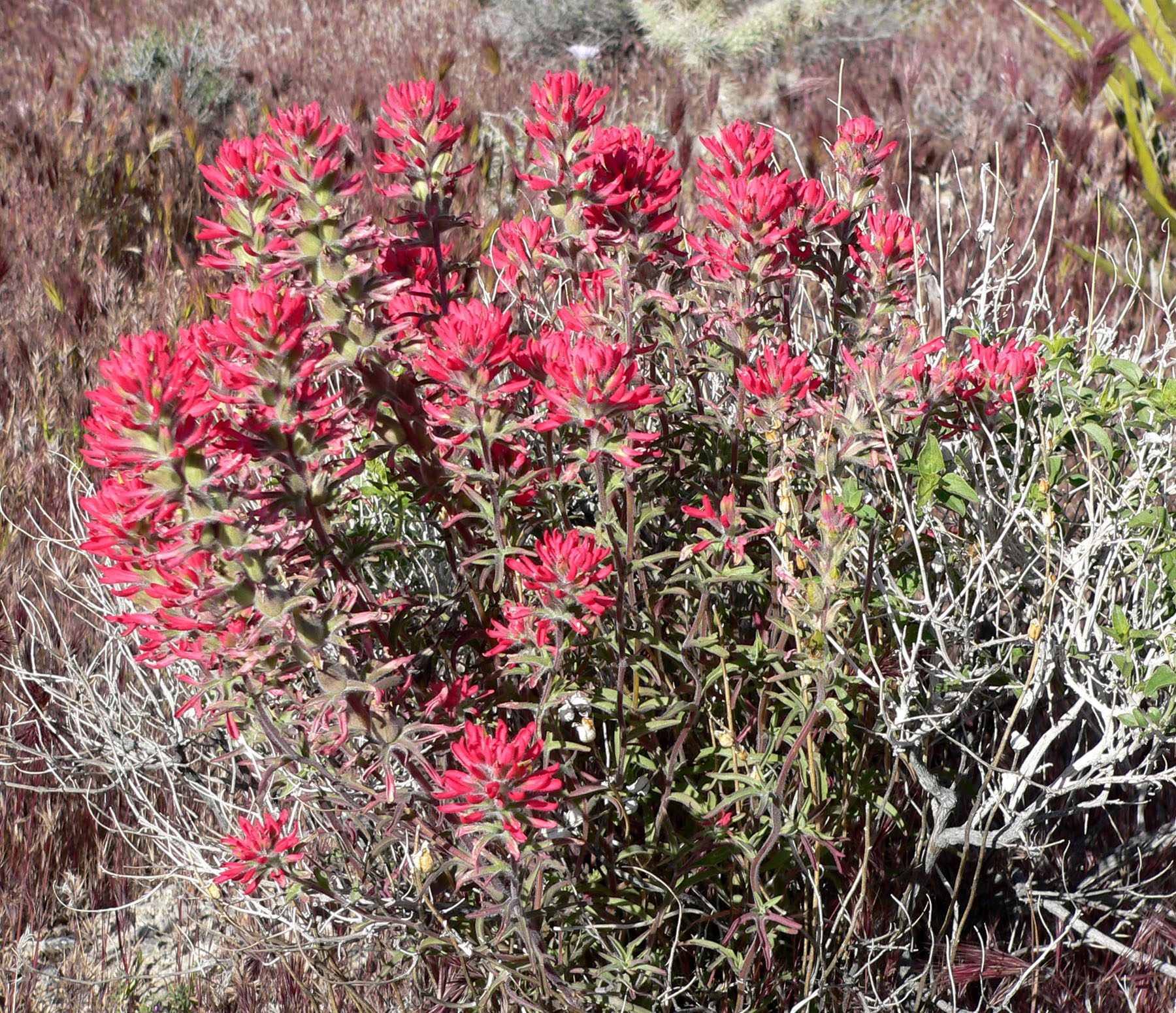 Photo of Castilleja angustifolia in Red Rock Canyon near Las Vegas, Nevada